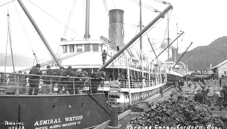 Caption on image: Working cargo, Cordova PH Coll 247.519 Subjects (LCTGM): Admiral Watson (Ship); Piers & wharves--Alaska--Cordova; Cargo ships--Alaska--Cordova; Sailors--Alaska--Cordova; Pacific-Alaska Navigation Co.--People--Alaska--Cordova; Pacific-Alaska Navigation Co.--Equipment & supplies--Alaska--Cordova Subjects (LCSH): Loading and unloading--Alaska--Cordova; Freight and freightage--Alaska--Cordova